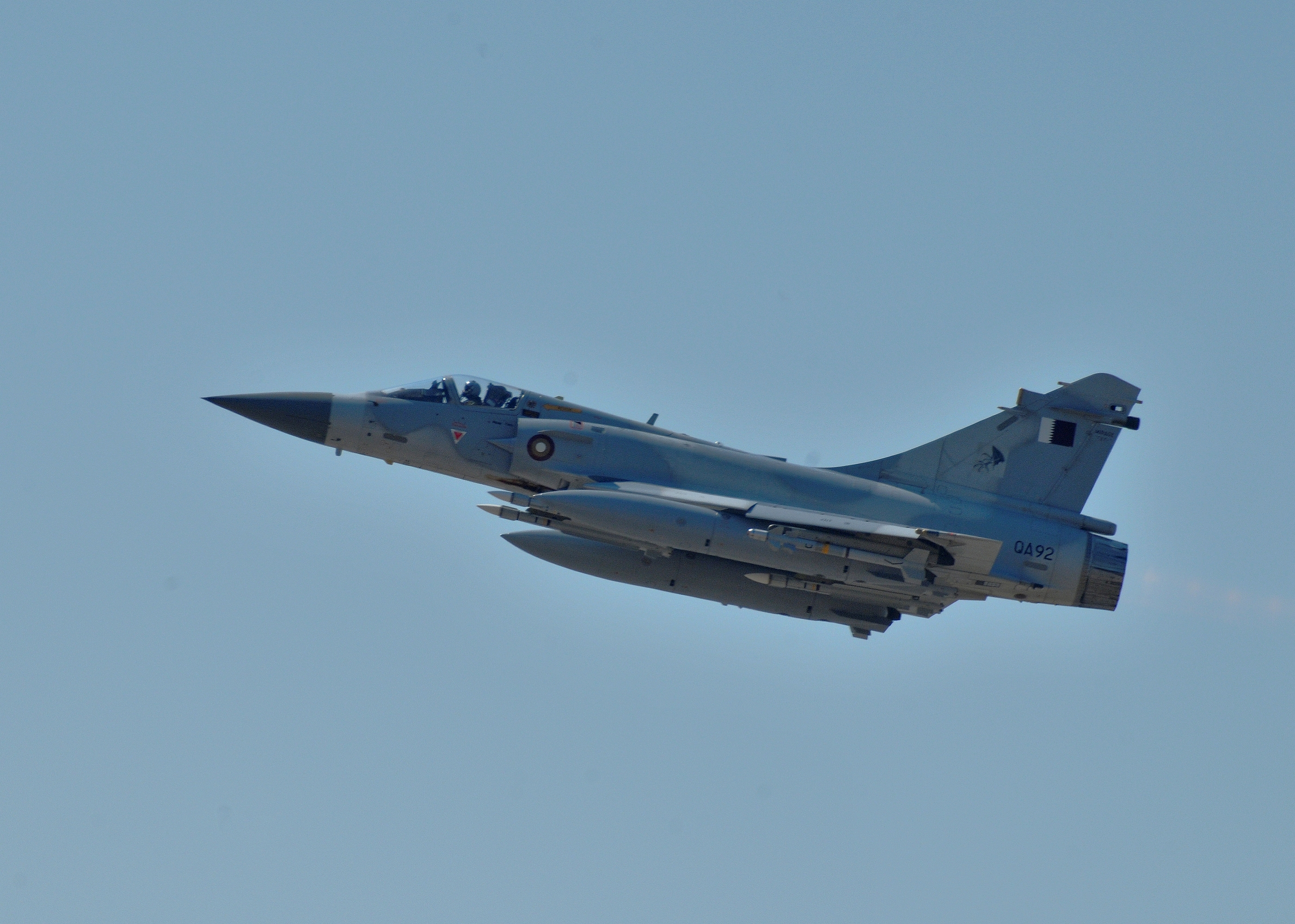 Souda Bay, Greece. A Qatar Emiri Air Force Dassault Mirage 2000-5 fighter jet takes off as part of a Joint Task Force Odyssey Dawn mission. Joint Task Force Odyssey Dawn is the U.S. Africa Command task force established to provide operational and tactical command and control of U.S. military forces supporting the international response to the unrest in Libya and enforcement of United Nations Security Council Resolution (UNSCR) 1973. UNSCR 1973 authorizes all necessary measures to protect civilians in Libya under threat of attack by Qadhafi regime forces. JTF Odyssey Dawn is commanded by U.S. Navy Adm. Samuel J. Locklear, III. (110325-N-M0201-067)